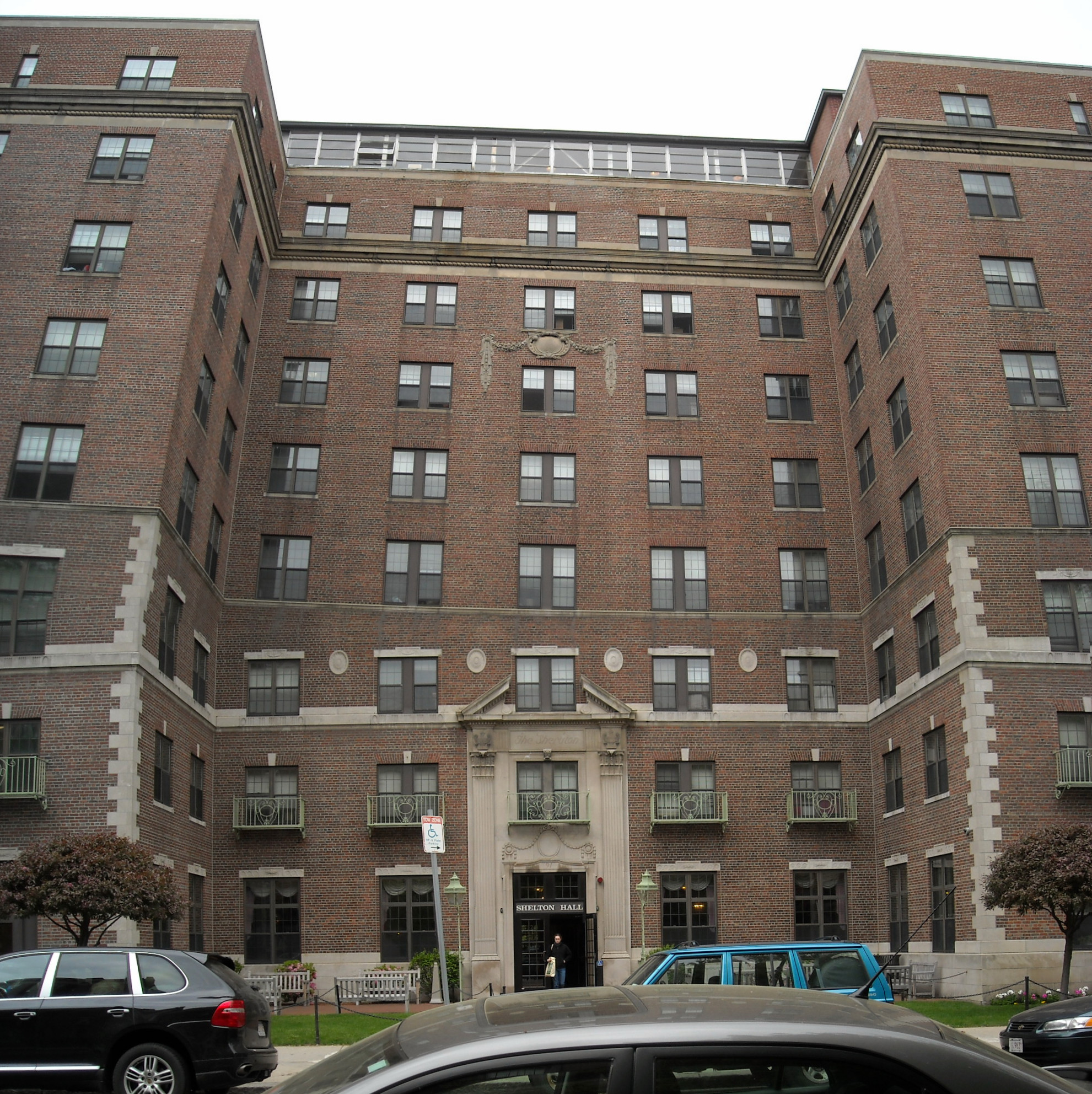 Shelton Hall on Bay State Road at Boston University